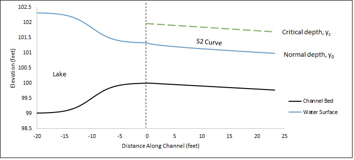 S2 curve for Fr=1.18